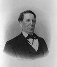 Former Senator George Goldthwaite of Alabama.